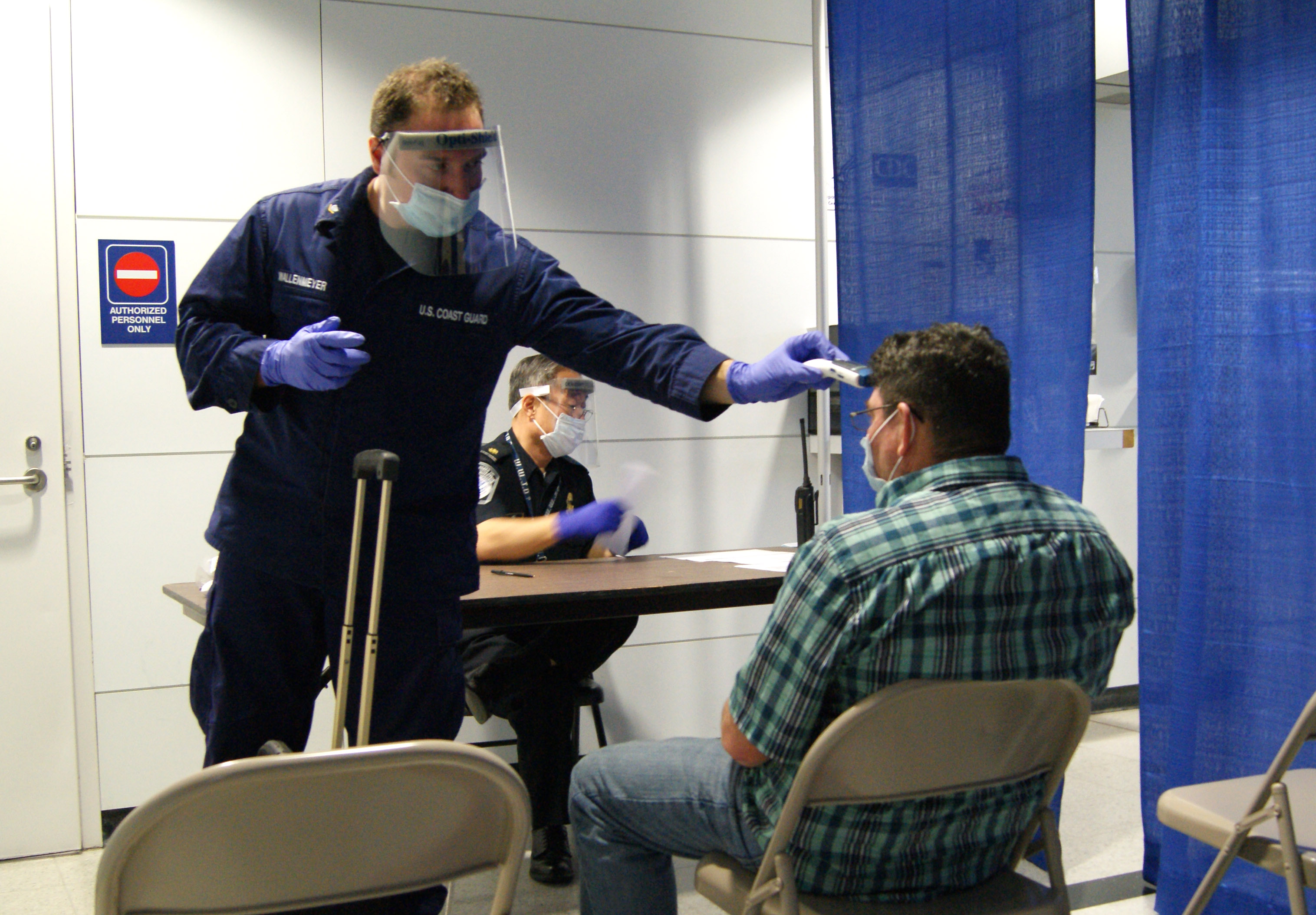 Ebola screening of a passenger who arrived from Sierra Leone at Chicago's O'Hare airport (Photo credit: Melissa Maraj of U.S. Customs and Border Protection)